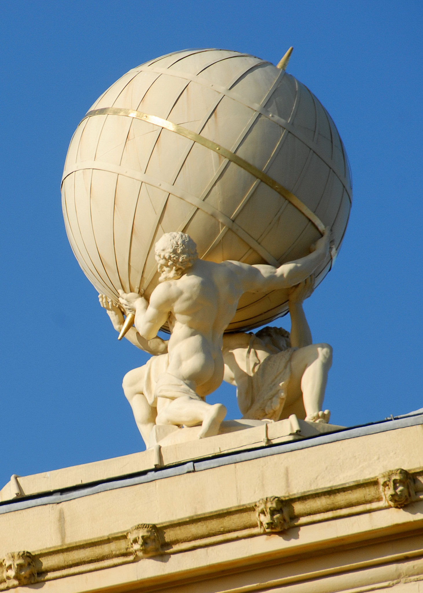 Statue by John Bacon depicting Atlas carrying the World.It is on the roof of Radcliffe Observatory, Green Templeton College, Oxford.